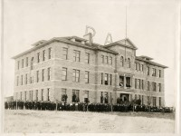 1903 pic of main Ricks College building